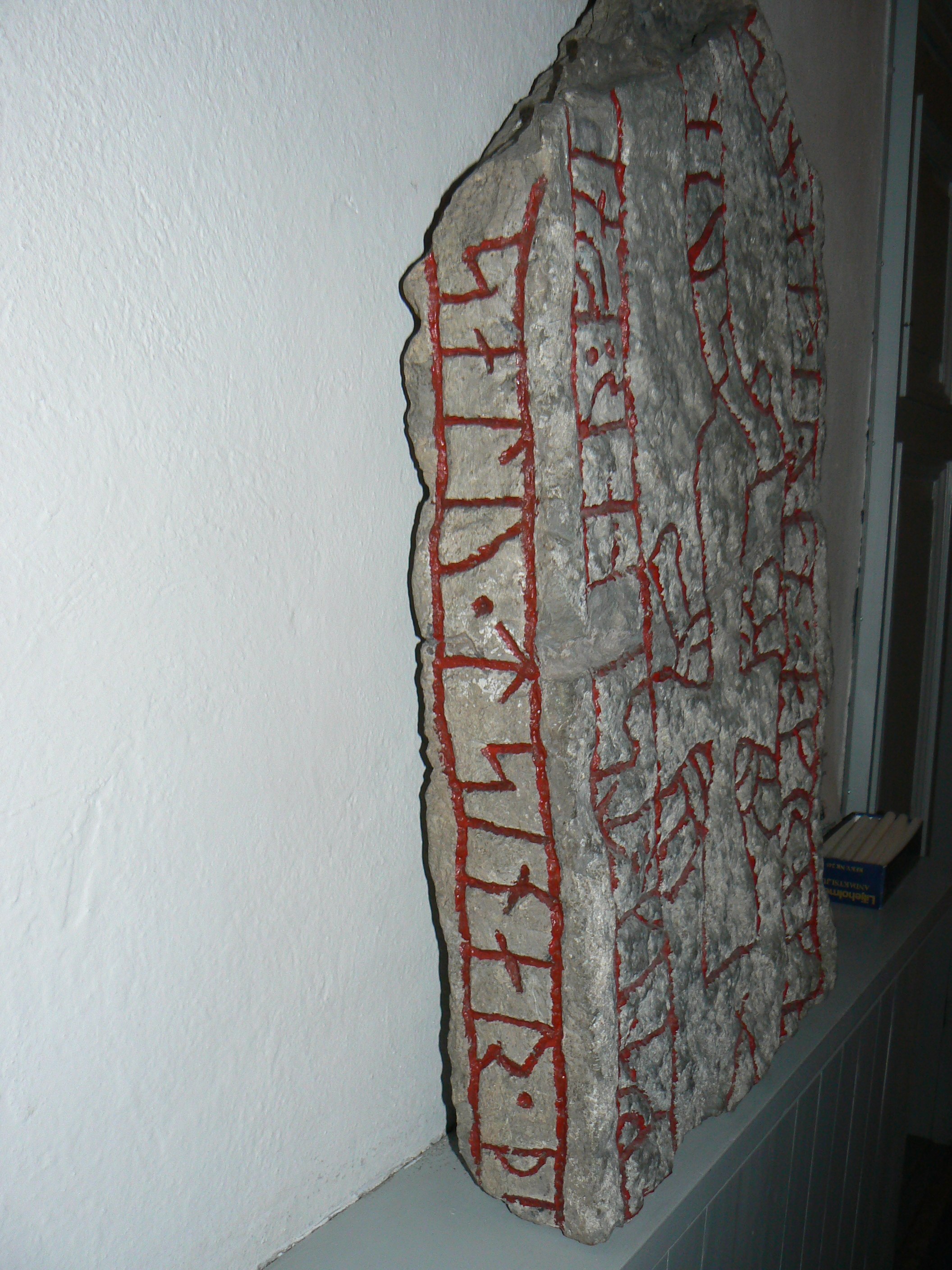 Runestone Ög 231 in Östra Stenby church, Östergötland Sweden. Inscription on the side.